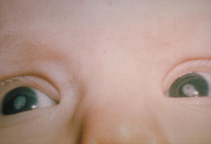 ID#: 4284 Description: This photograph shows the cataracts in a child’s eyes due to Congenital Rubella Syndrome (CRS). Rubella is a viral disease that can affect susceptible persons of any age. Although generally a mild rash, if contracted in early pregnancy, there can be a high rate of fetal wastage or birth defects, known as Congenital Rubella Syndrome (CRS). Content Providers(s): CDC Creation Date: 1976 Copyright Restrictions: None - This image is in the public domain and thus free of any copyright restrictions. As a matter of courtesy we request that the content provider be credited and notified in any public or private usage of this image.